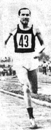 Simo Vazič (1934-), Slovene athlete